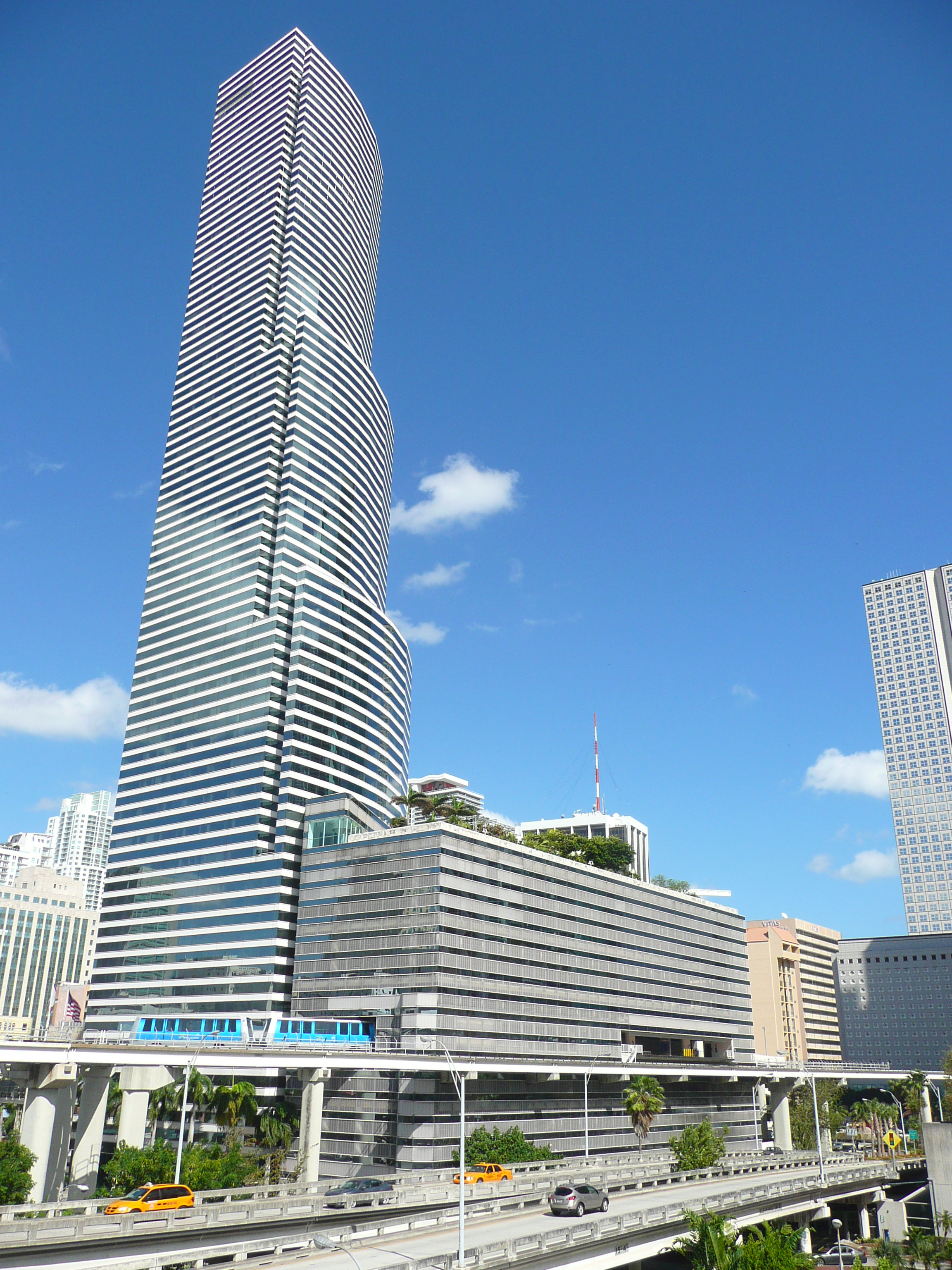 Digital photo taken by Marc Averette. The Bank of America Tower in Downtown Miami, Florida, United States.